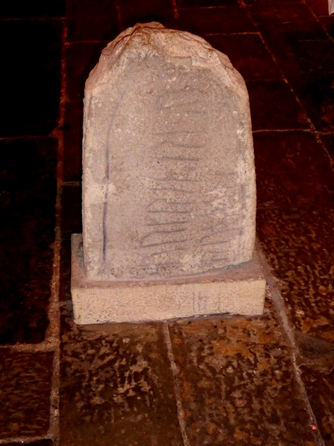 The Killaloe Stone, also called Shantraud Ogham-Runic Stone (CIIC 54), in the St Flannan's Cathedral in Killaloe, County Clare, Ireland has both an Ogham and a runic inscription. In the picture the front view with runes of the Younger Futhark.